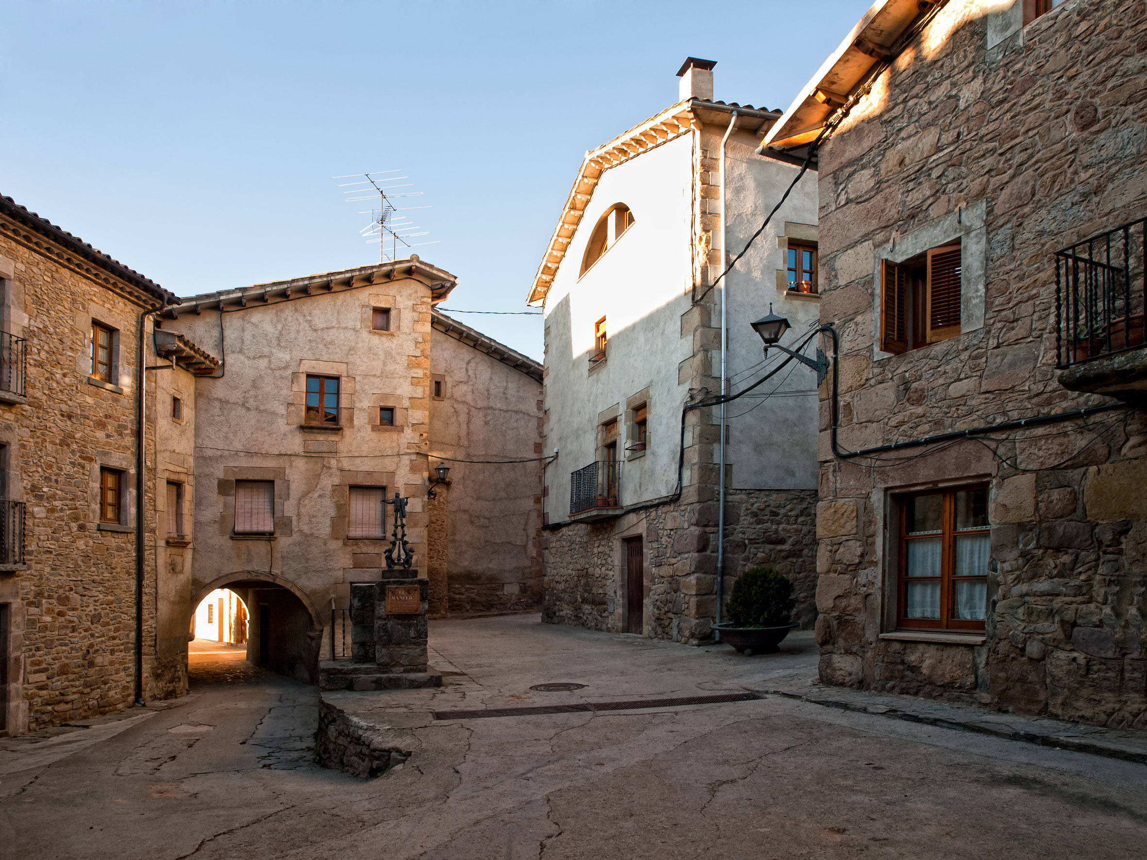 Joan Prat Roca Square of Alpens (Catalonia, Spain)